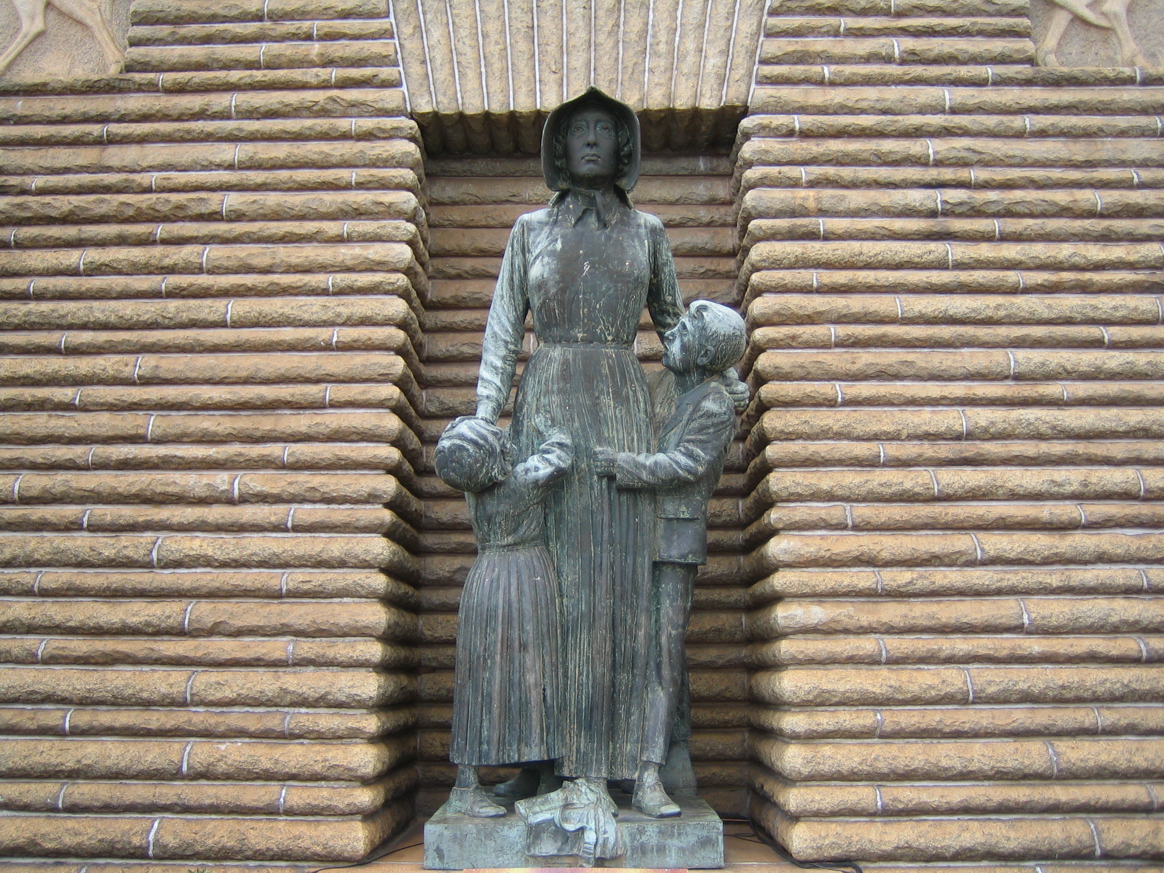 Van Wouw's Voortrekker Vrou Statue at the Voortrekker Monument, Pretoria